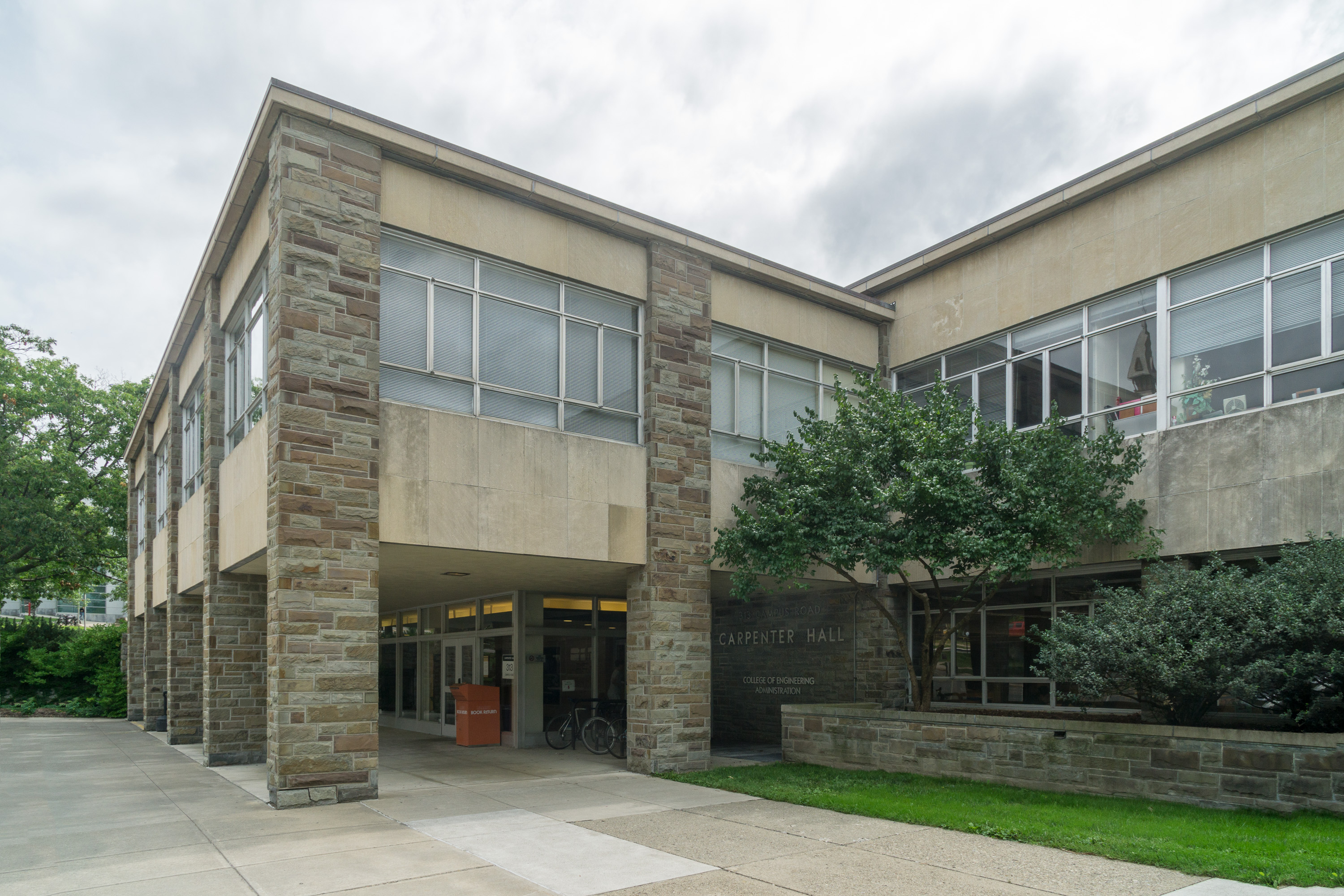 Carpenter Hall, Cornell University Engineering.